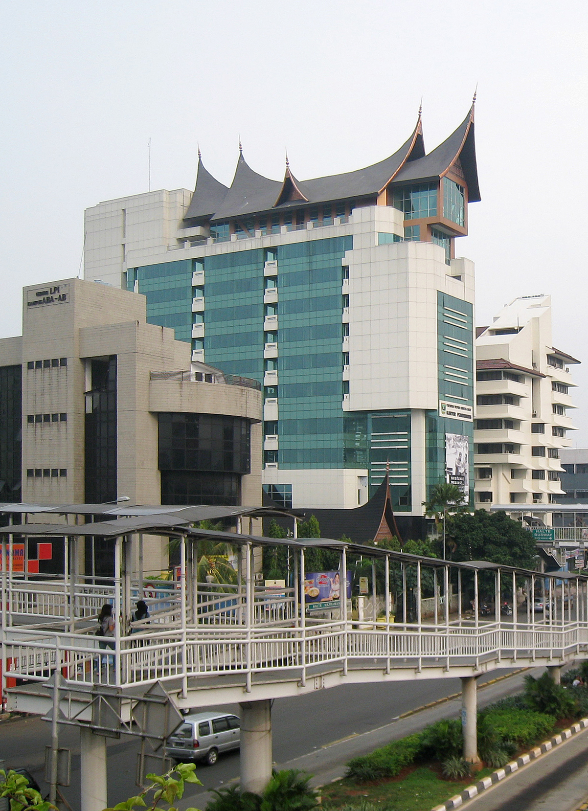 The West Sumatra province representative office also Balairung Hotel in Matraman street, East Jakarta. The modern building featuring typical Minangkabau roof and vernacular architecture.